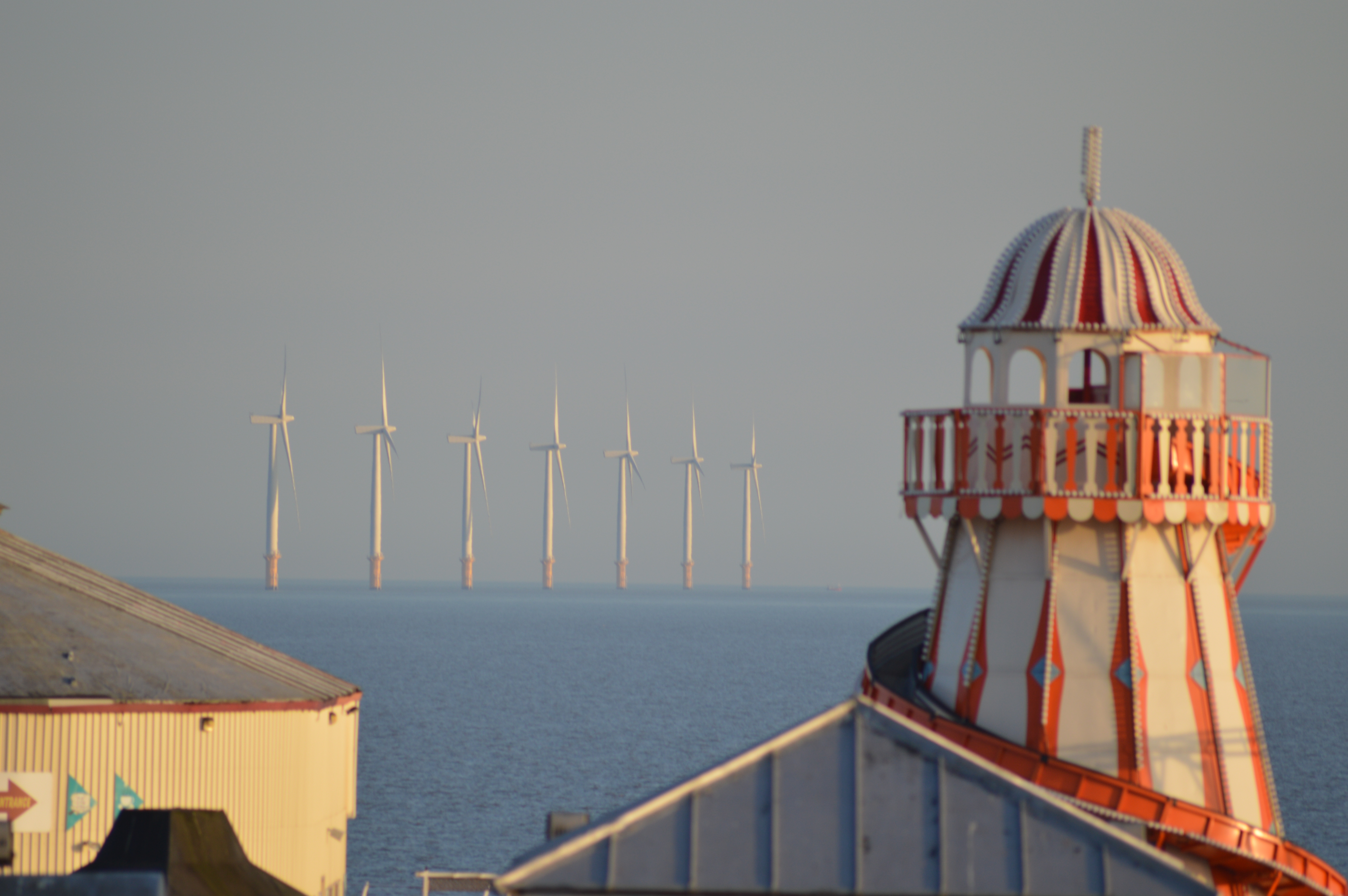 Clacton Pier helter-skelter with Gunfleet Sands Offshore Wind Farm in background. The 75-year-old helter-skelter collapsed in a storm later in the month on 28 October 2013.[1]